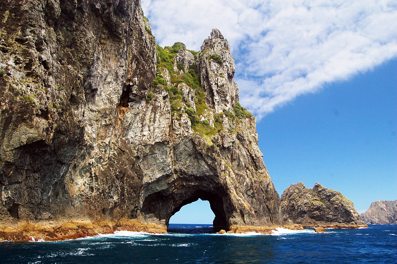 The 'Hole in the Rock' in 'Piercy Island' (surely, that must have been a tongue-in-cheek name originally) in Bay of Islands, New Zealand. Flicker webpage description was: A boat can sail right through that hole.